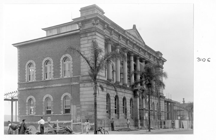 Construction of extensions to the State Library of Queensland on William St - Brisbane.